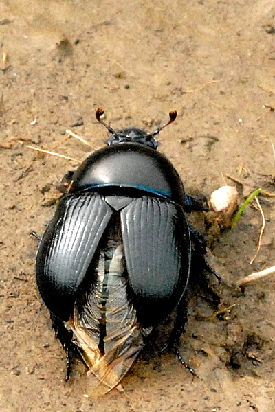 Geotrupes mutator from Commanster, Belgian High Ardennes .